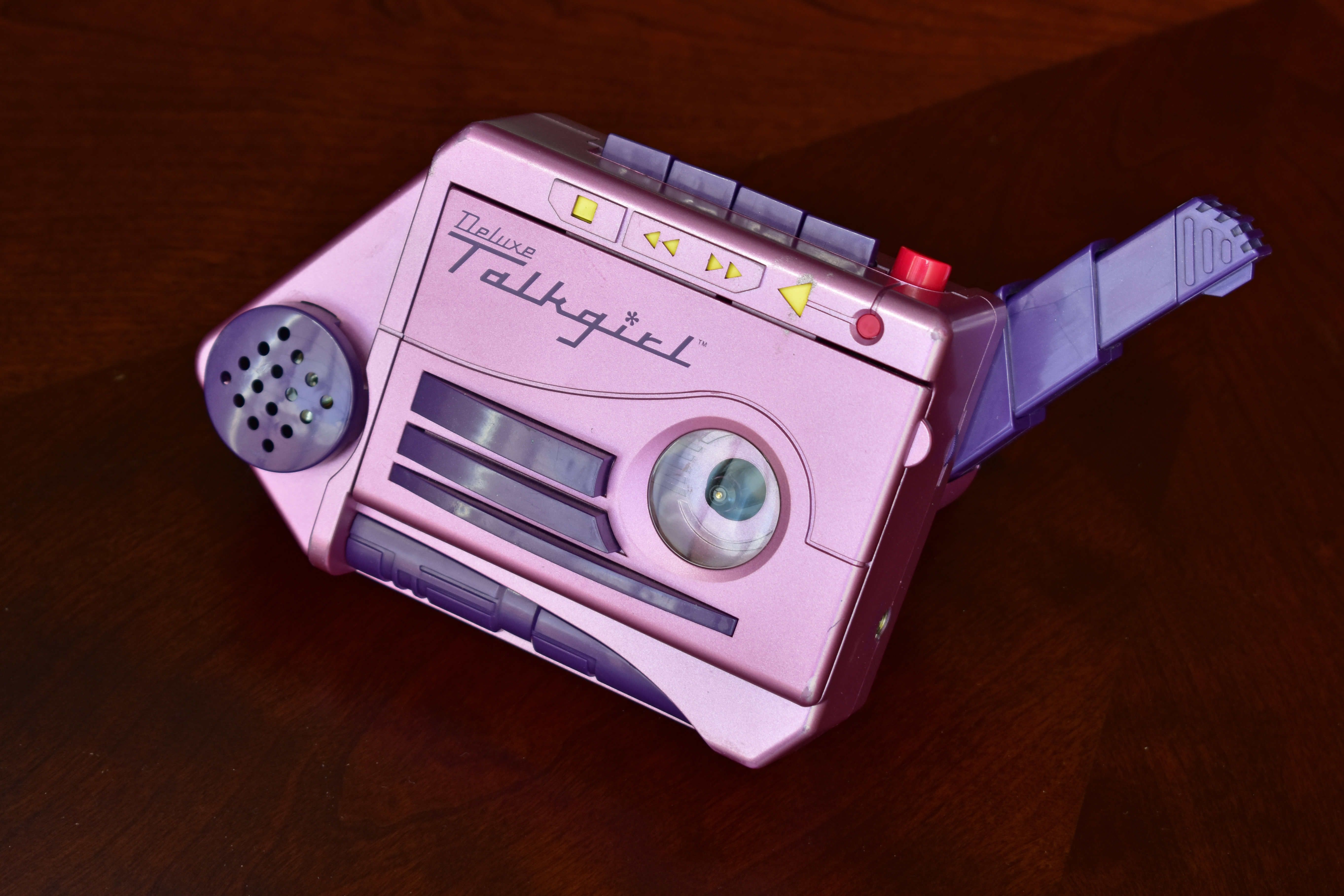 A Talkgirl cassette tape player and recorder, released by Tiger Electronics in 1995